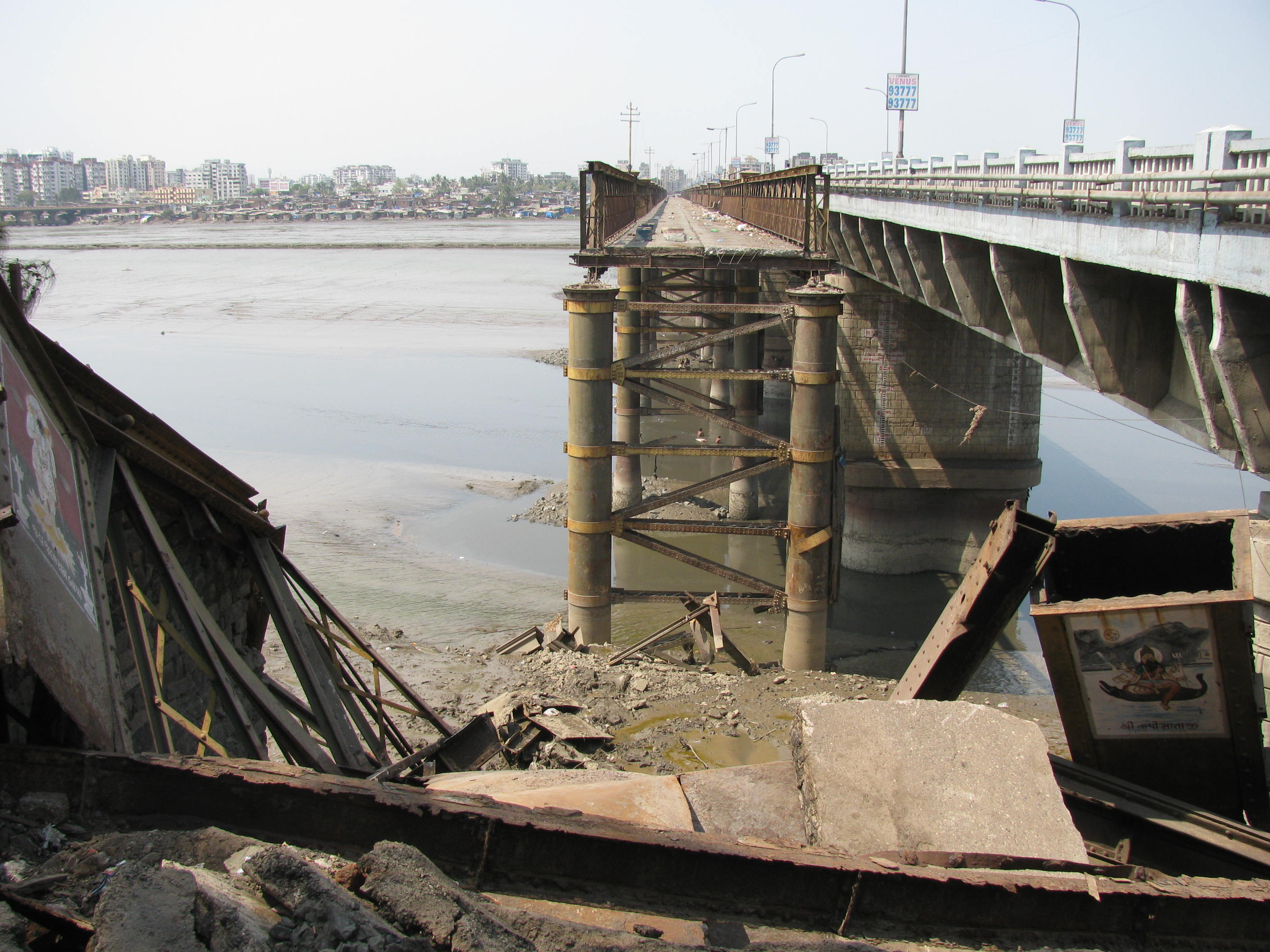 130 years old bridge on the river Tapi was built by Theodore Hope.The bridge's foundation was laid in 1874 and it was completed in 1877. Interestingly, it was the first structure to be built in public- private partnership by the residents of Surat, Narmada, Bharuch and Rander towns, according to historians.This is it in current poor condition.